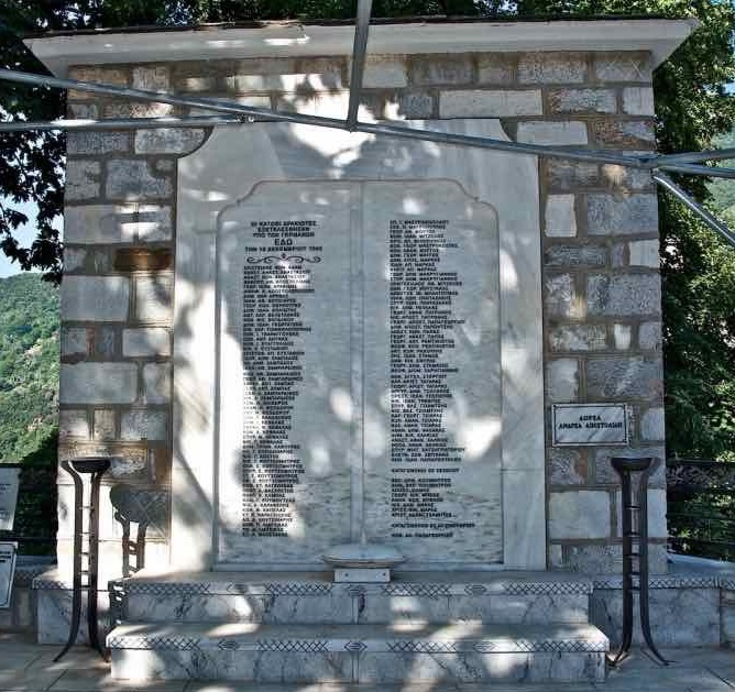 Monument in memory of the civilians massacred by Nazi Germans in Drakeia, Pelion, Greece on December 18, 1943.